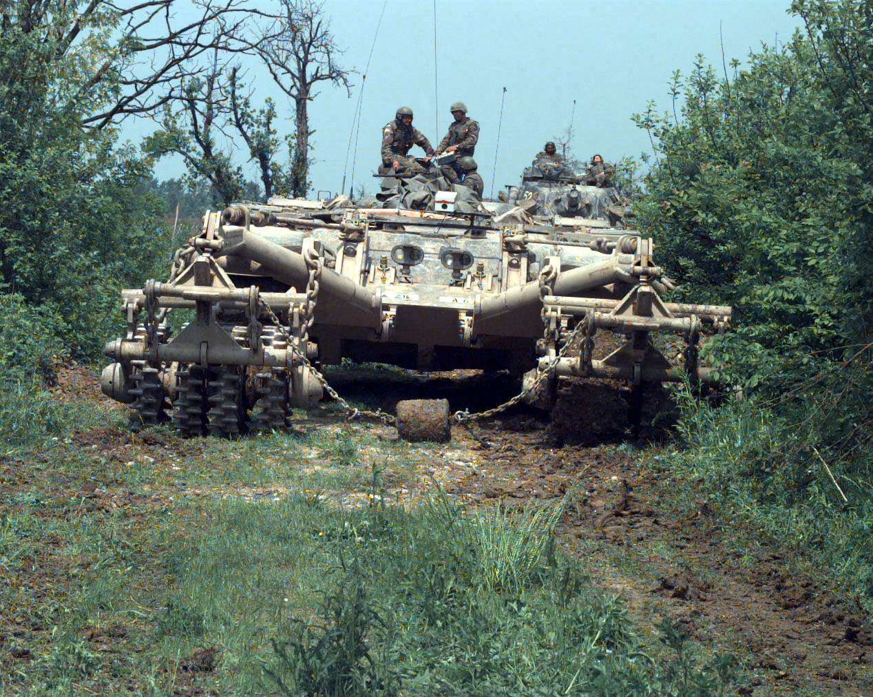 A remotely controlled Panther armored mine clearing vehicle leads a column of armored vehicles down a road near McGovern Base, in Bosnia and Herzegovina on May 16, 1996, during Operation Joint Endeavor. The Panther, based on a modified M-60 tank hull, uses metal rollers to set off contact or magnetic mines. The Panther is being operated by the 23rd Engineer Battalion, 1st Brigade, 1st Armored Division.